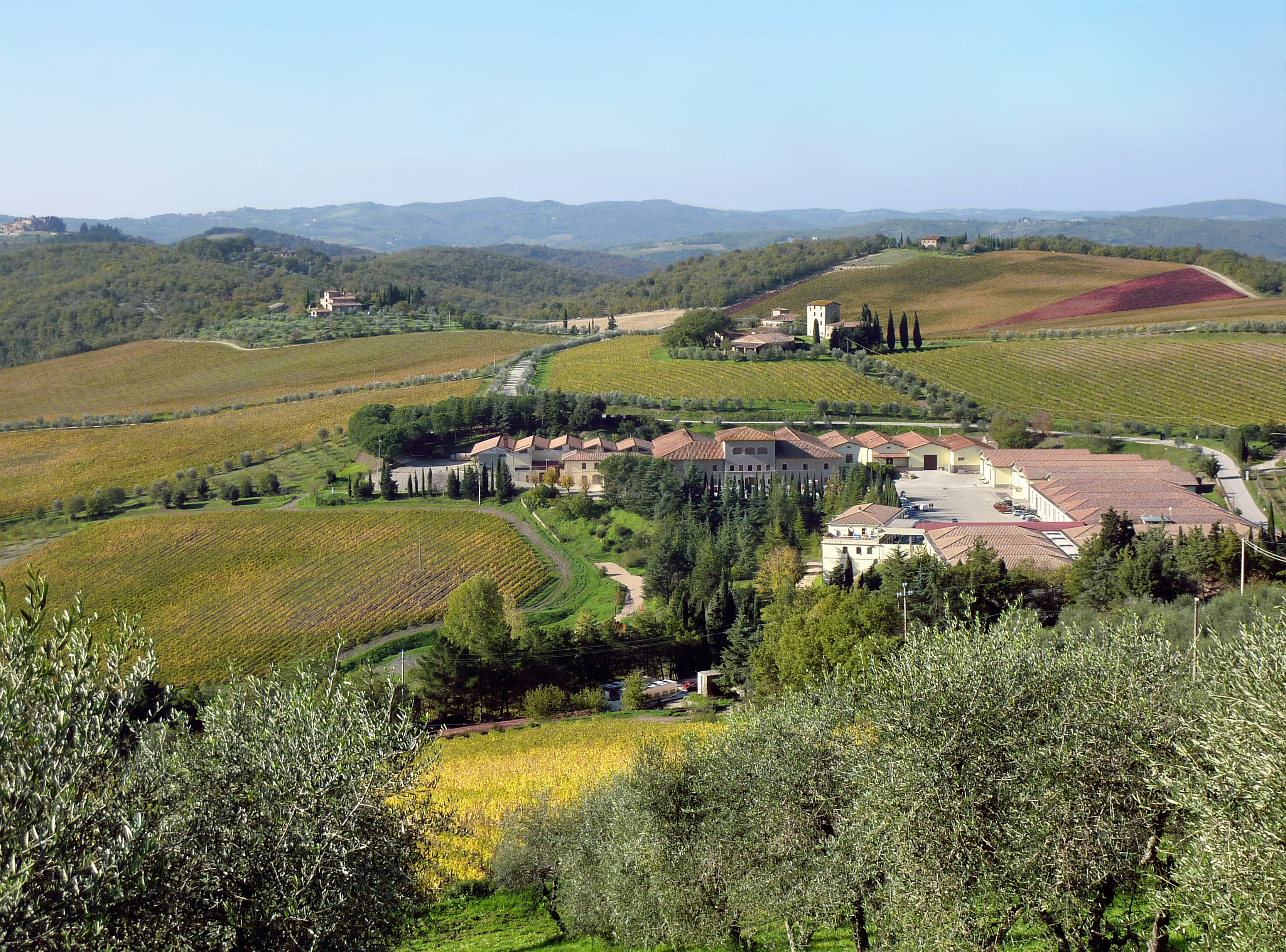 A vineyard and winery (La Madonna, Barone Ricasoli company) in Gaiole in Chianti